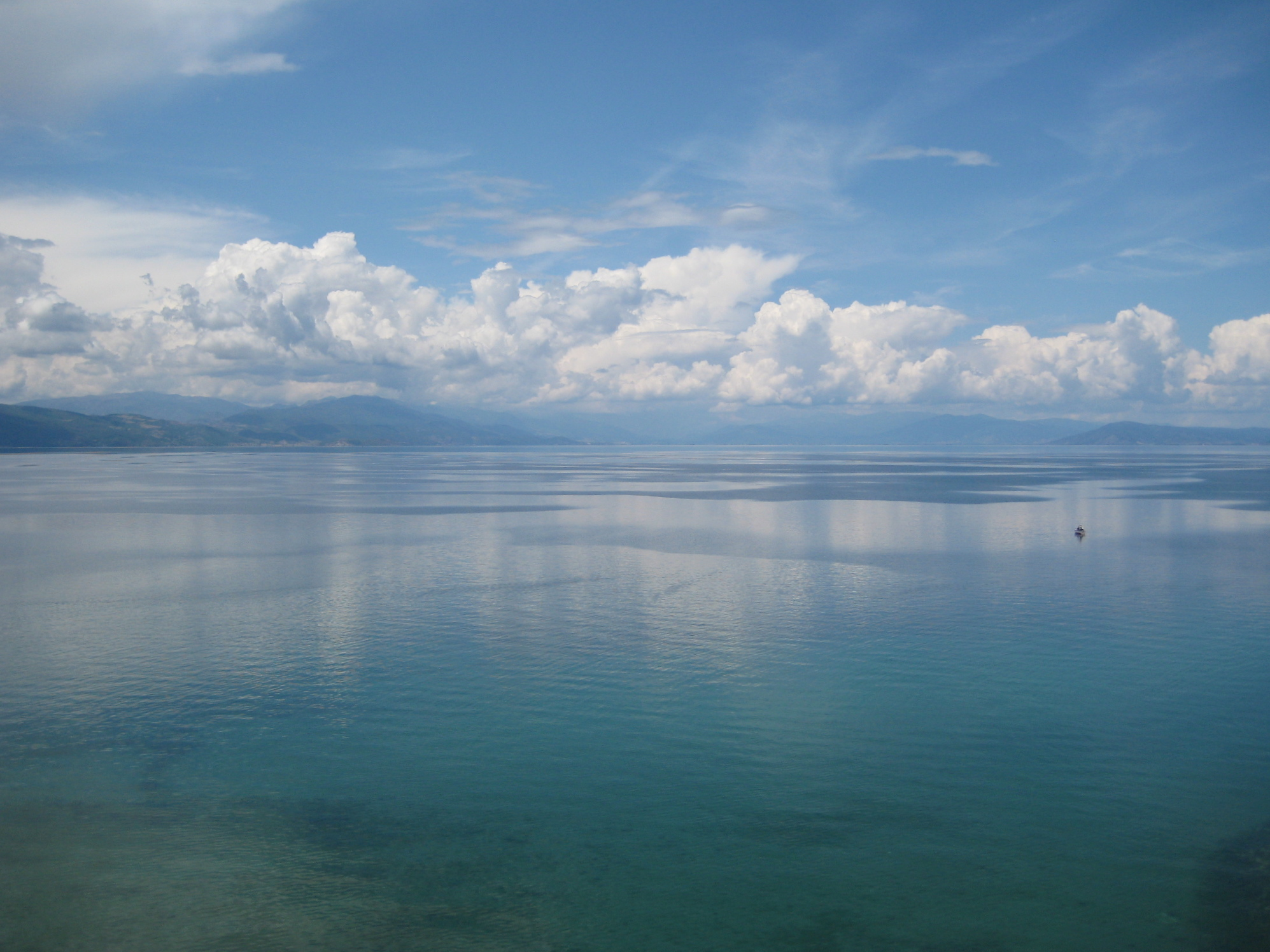 Lake Ohrid, Republic of Macedonia